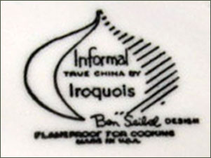 Iroquois China Company - Blue Vineyard, designed by Ben Seibel and manufactured between 1969 and 1973 - "Informal / True China / Iroquois / Ben Seibel Design / Flameproof for Cooking / Made in USA."